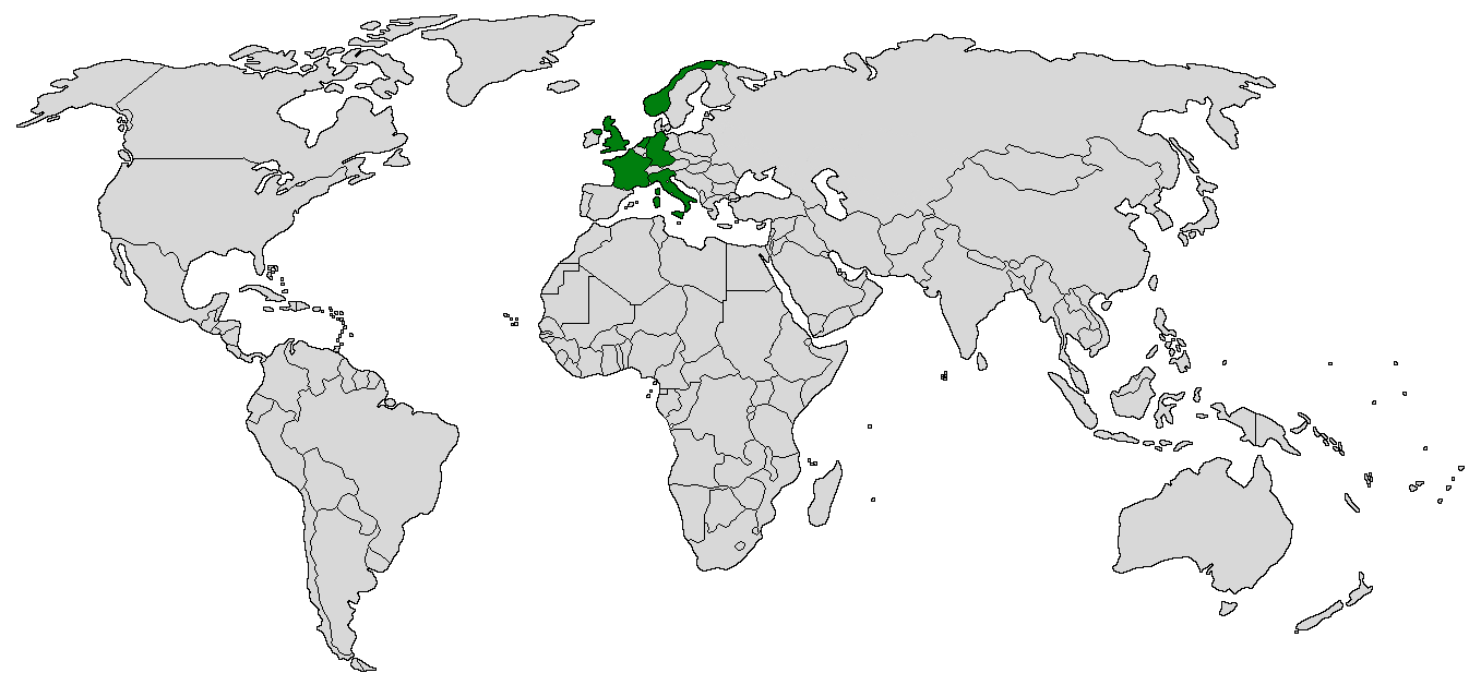 World map displaying the countries raced in by the Formula 1 Powerboat World Championship in its 1981 season.